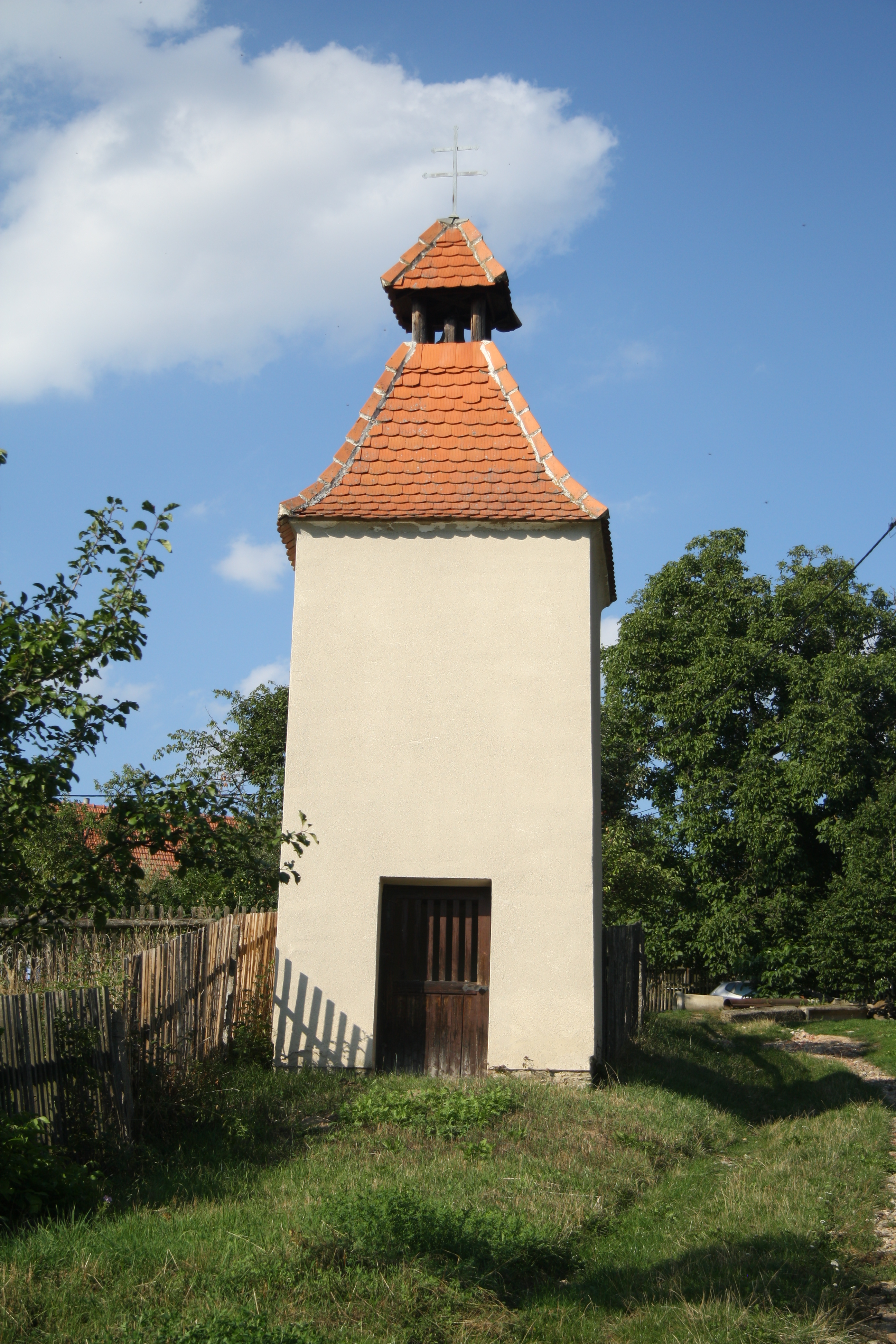 Chapel in Jestřabí, Velká Bíteš, Žďár nad Sázavou District.